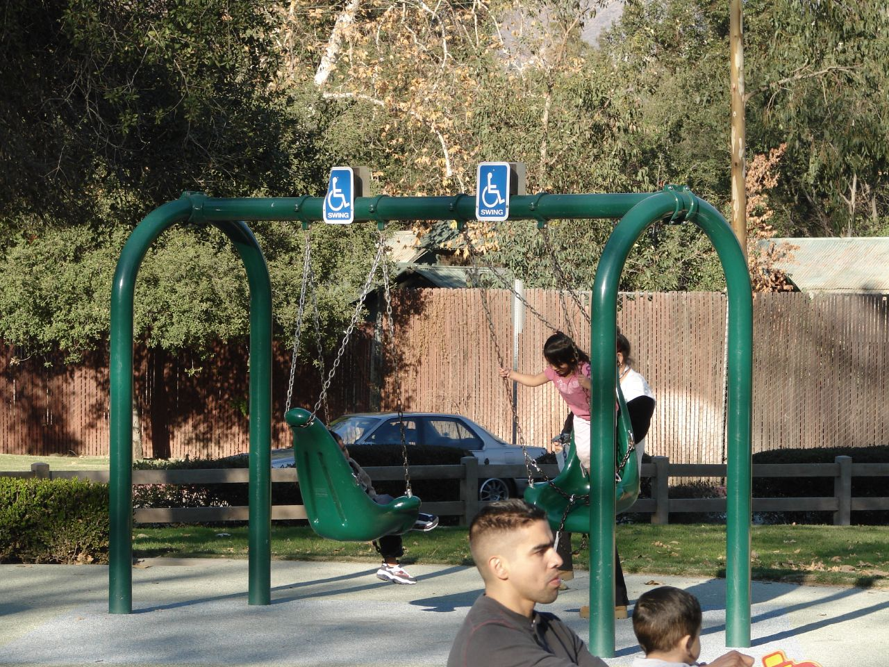 Playground swings for wheelchair users in Griffith Park, Los Angeles, California.